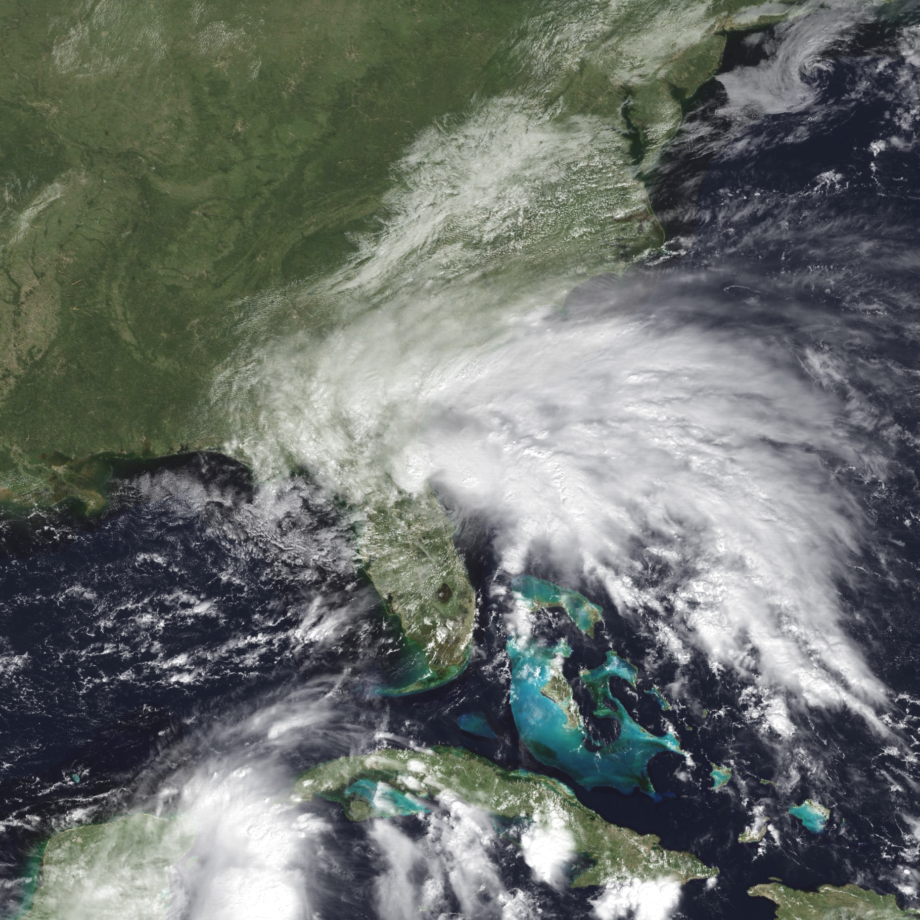 Tropical Storm Tammy at peak intensity near landfall in Florida on October 5, 2005